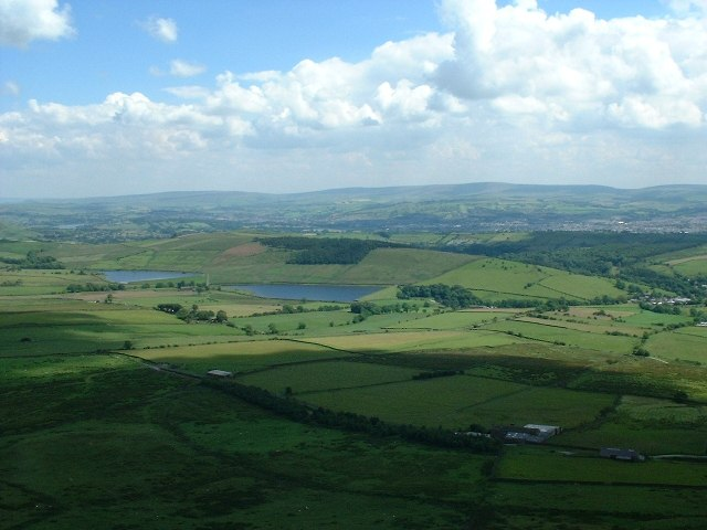 Upper & Lower Black Moss Reservoir. Upper & Lower Black Moss Reservoir viewed from half way up Pendle Hill. Photograph taken with Fuji Finepix 1400Zoom.